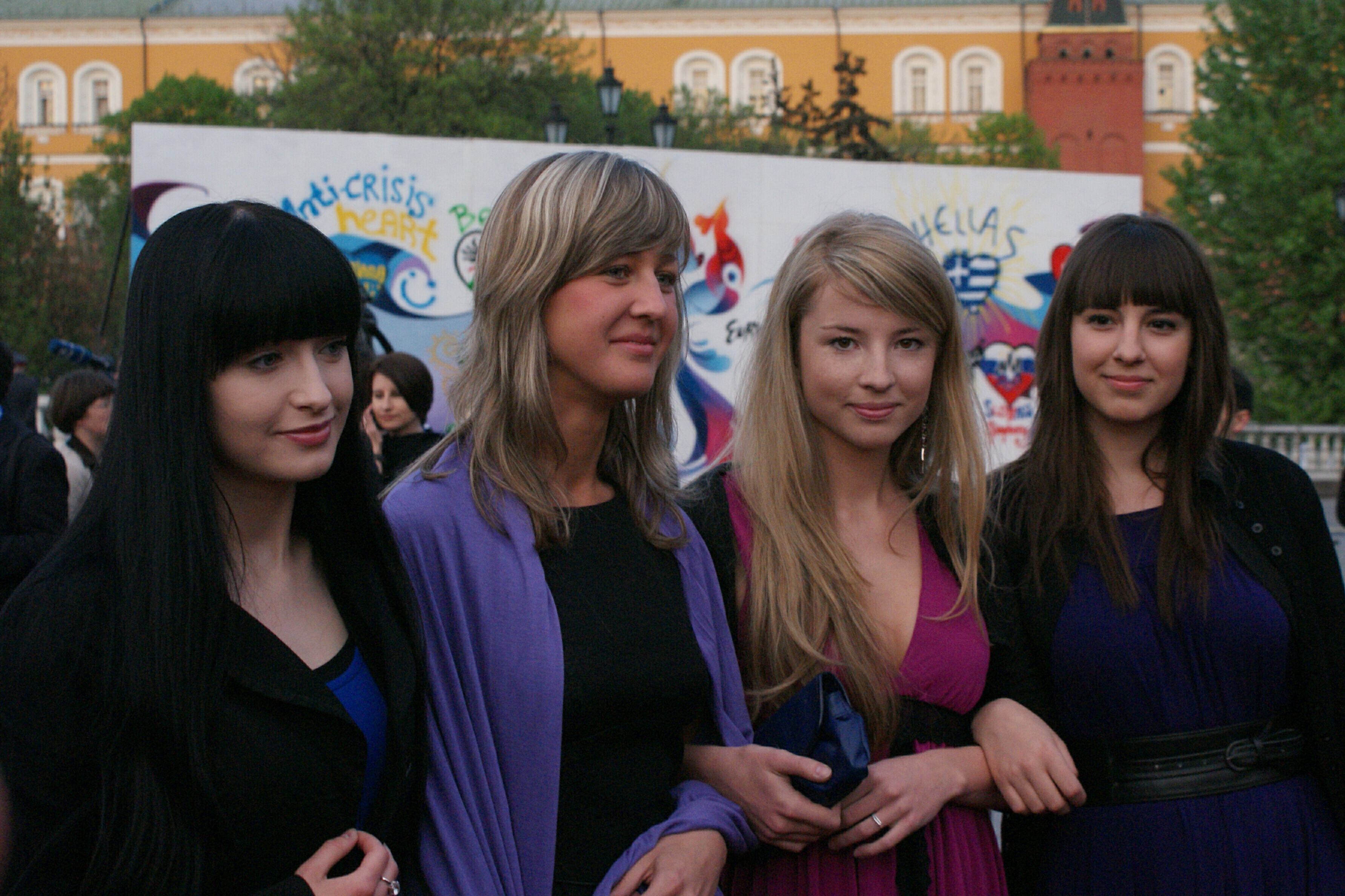 Urban Symphony in Moscow, 2009. Left to right: Sandra Nurmsalu, Mann Helstein, Mari Möldre, Johanna Mängel